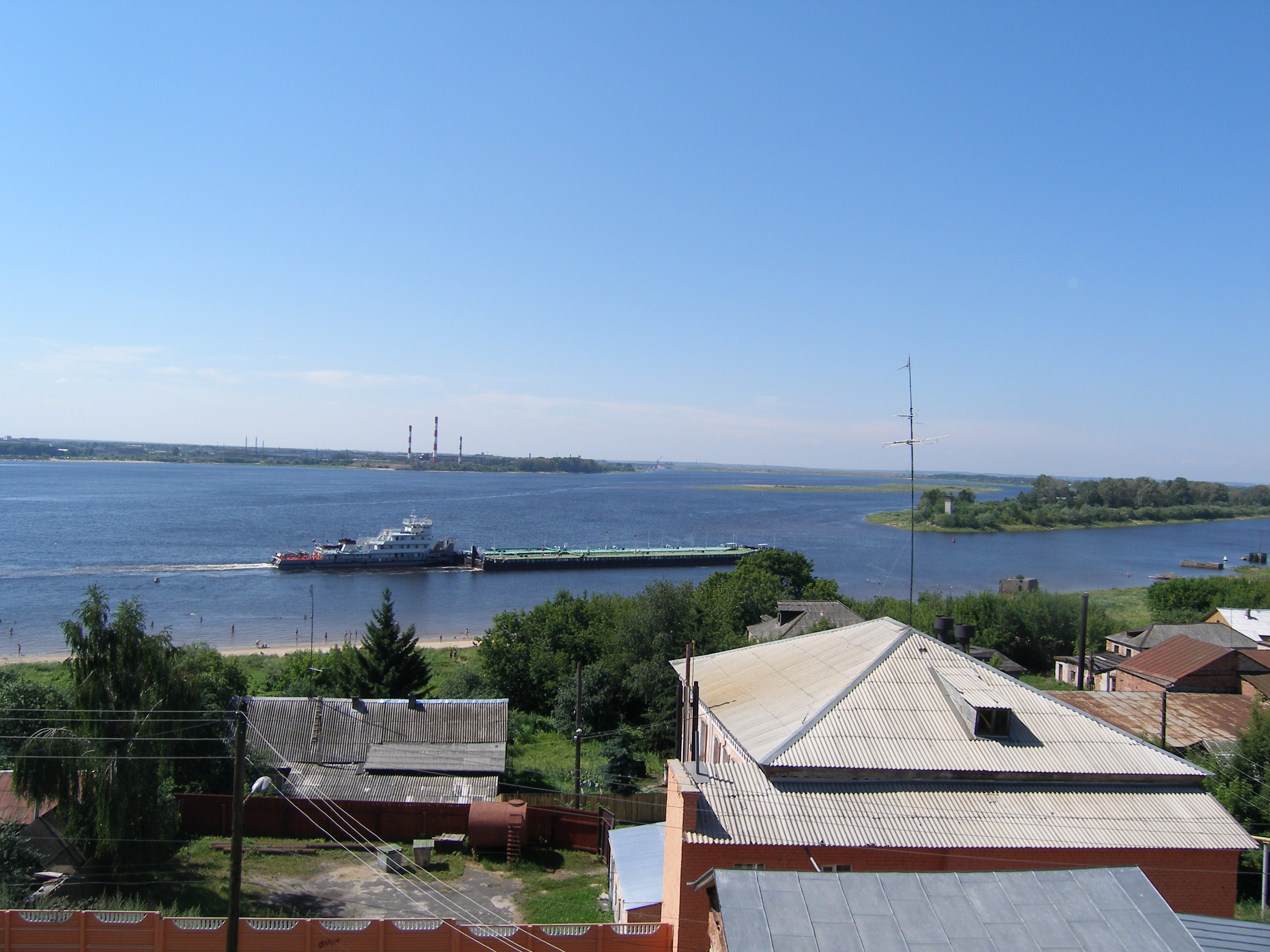 Gorodets, Nizhniy Novgorod region